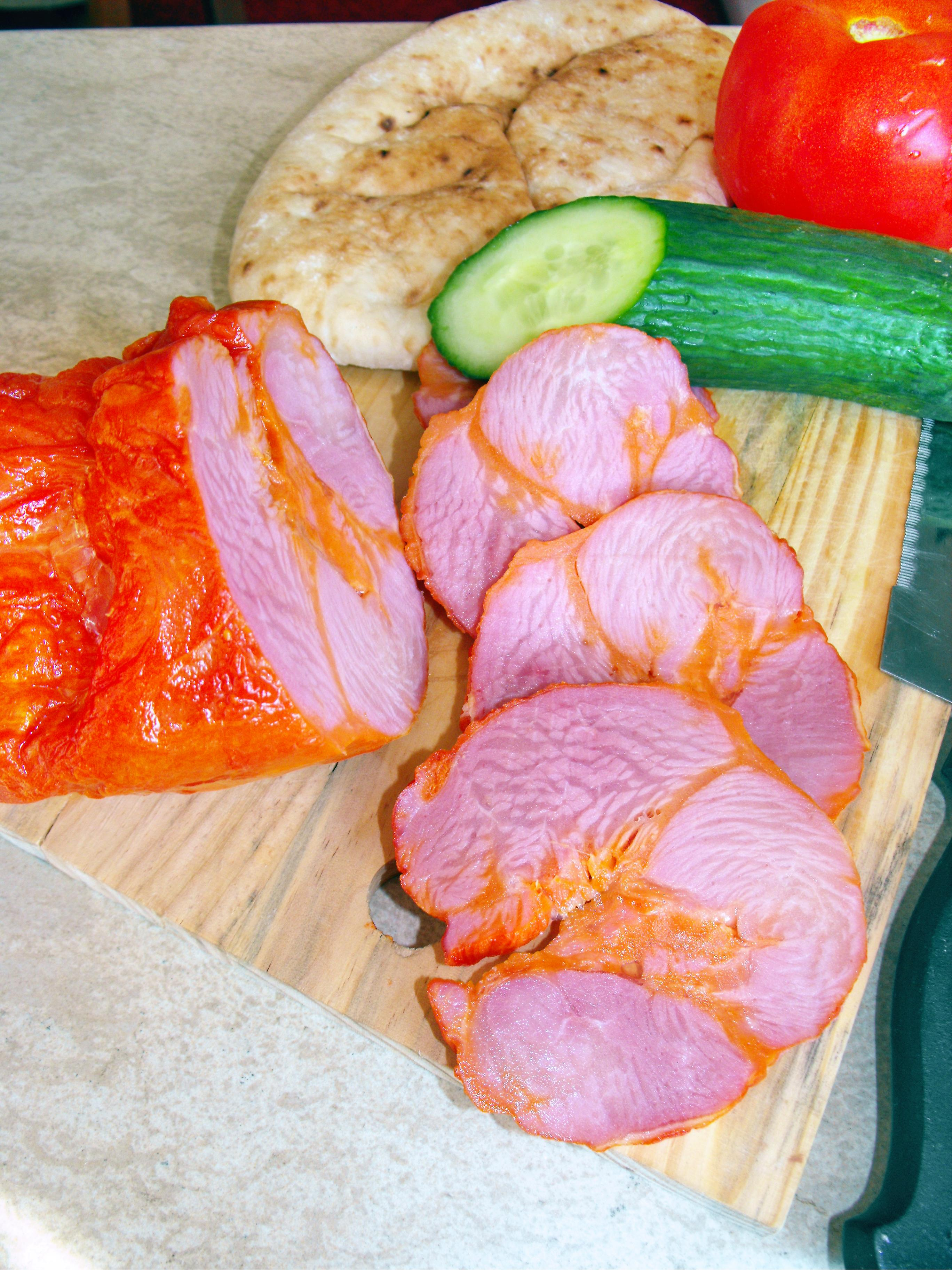 Turkey ham